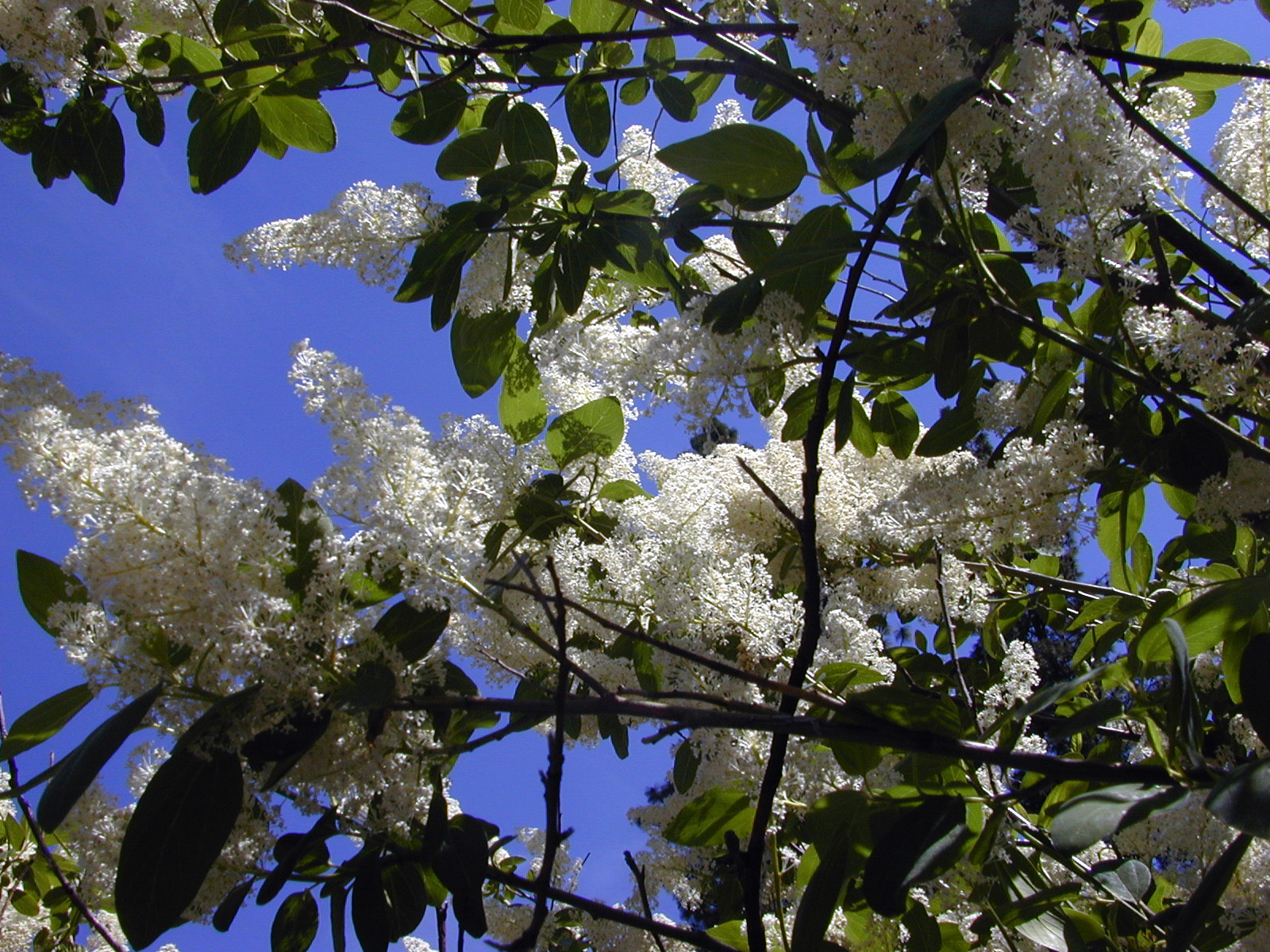 Deer Brush (Ceanothus integerrimus), Yosemite National Park. – "California Lilac"